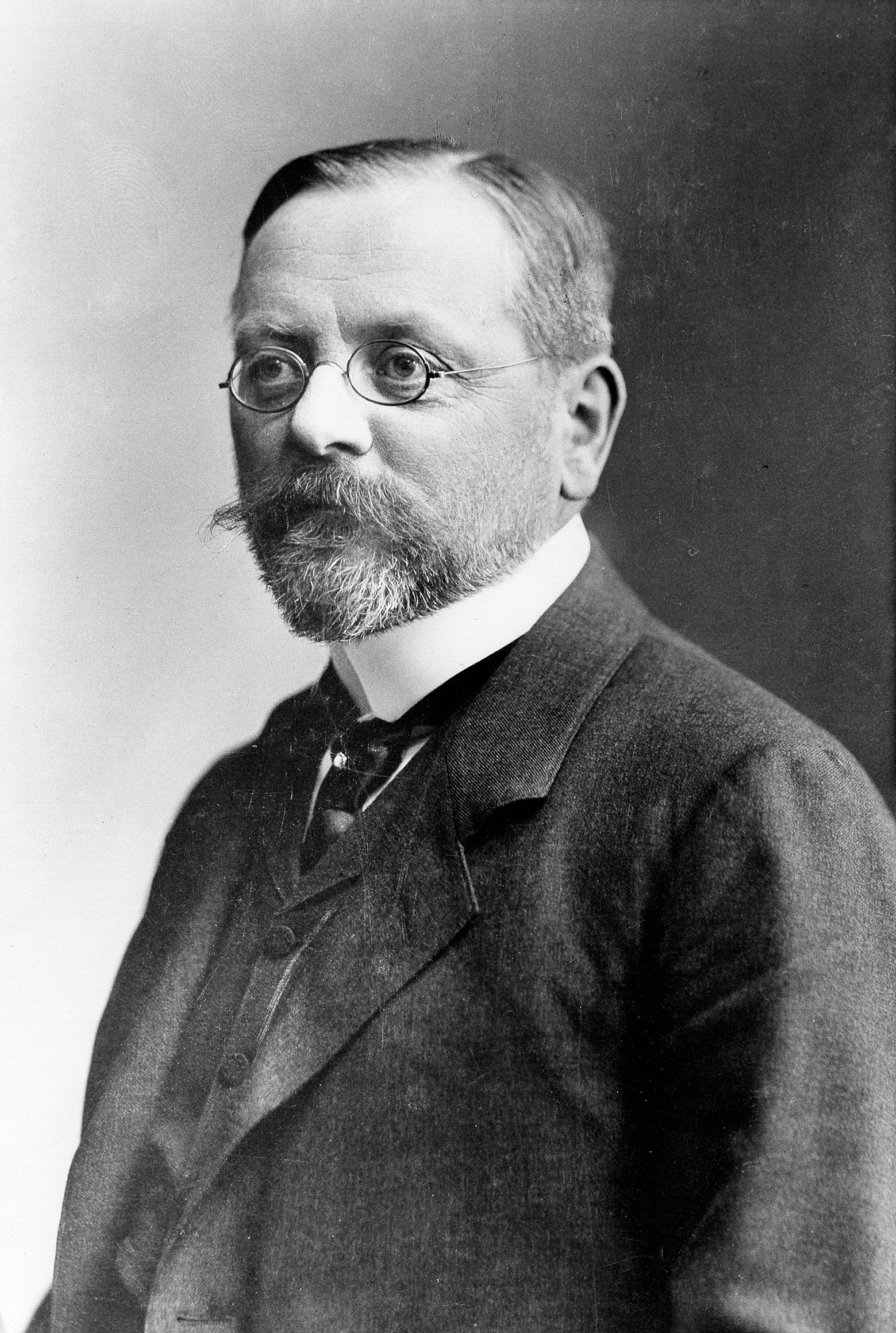 August von Parseval, 1902